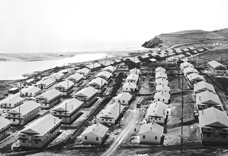 Fort Cronkhite right after completion. (Photo circa 1941)